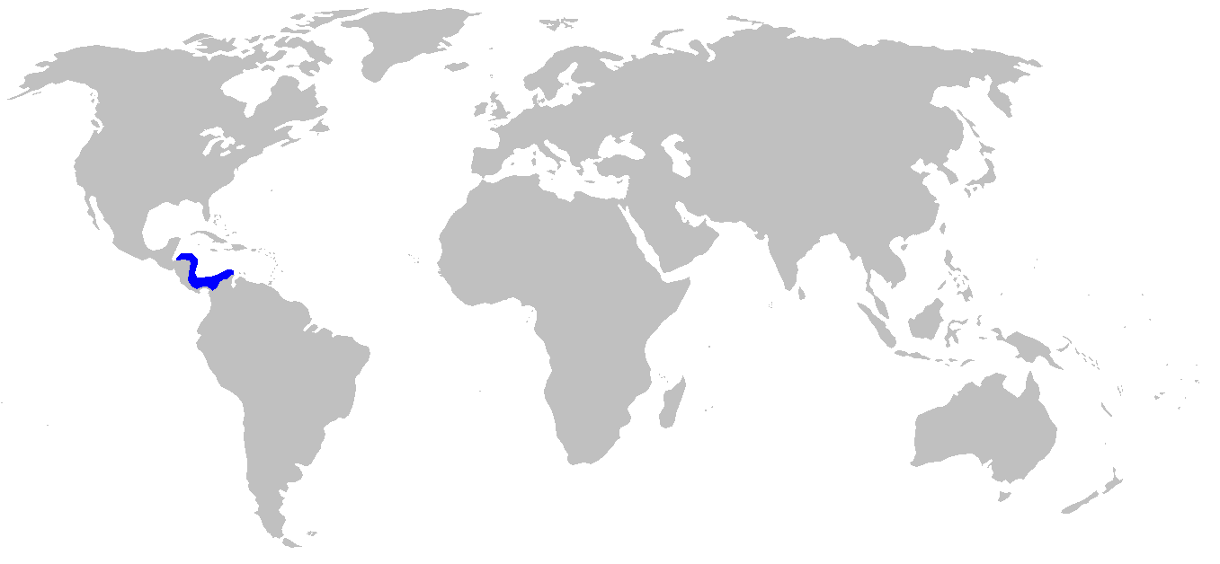 Distribution map for Scyliorhinus hesperius